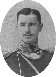 Chernyavsky, Aleksandr Stepanovich